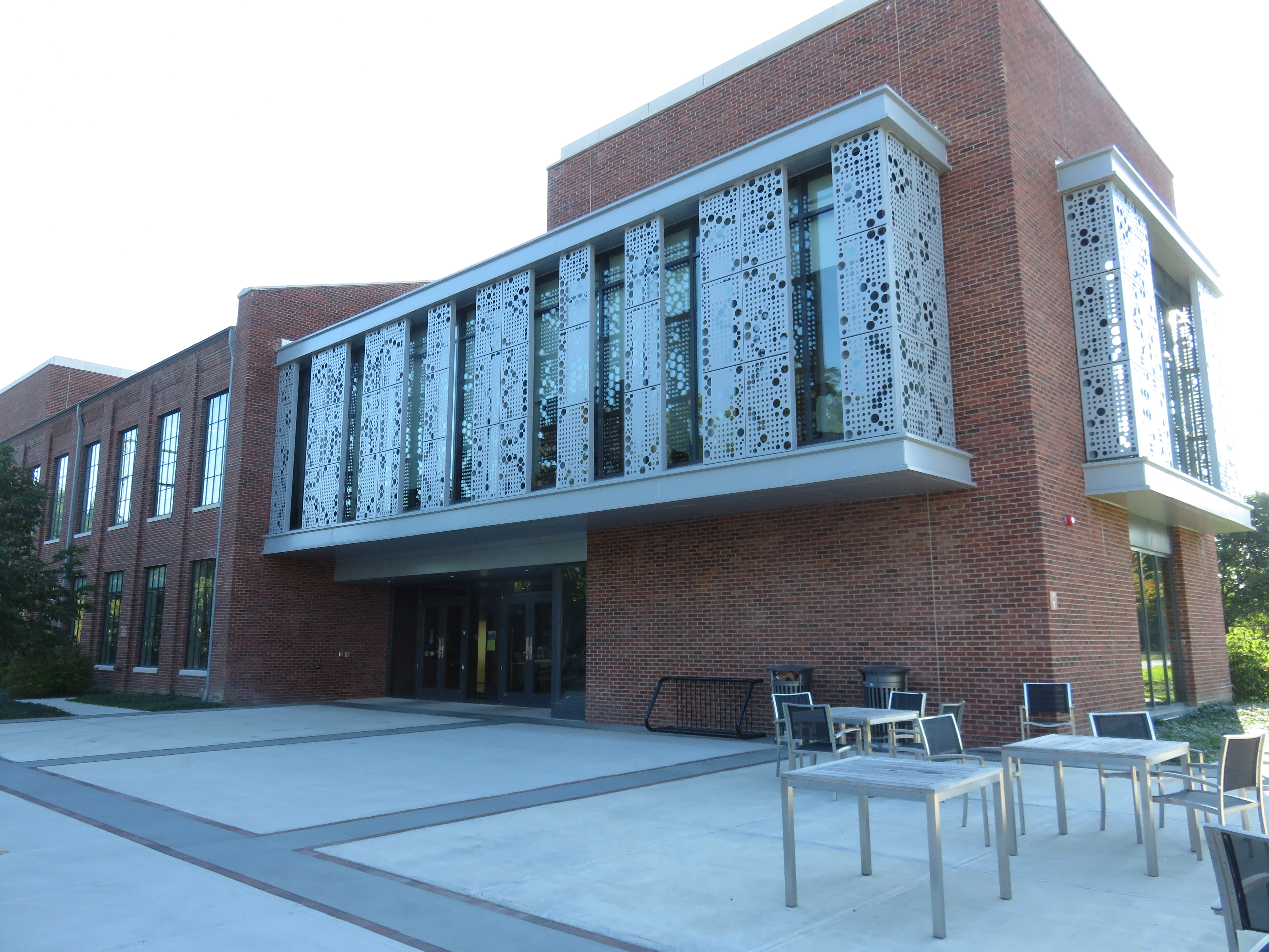 Building at Marist College in Poughkeepsie, New York